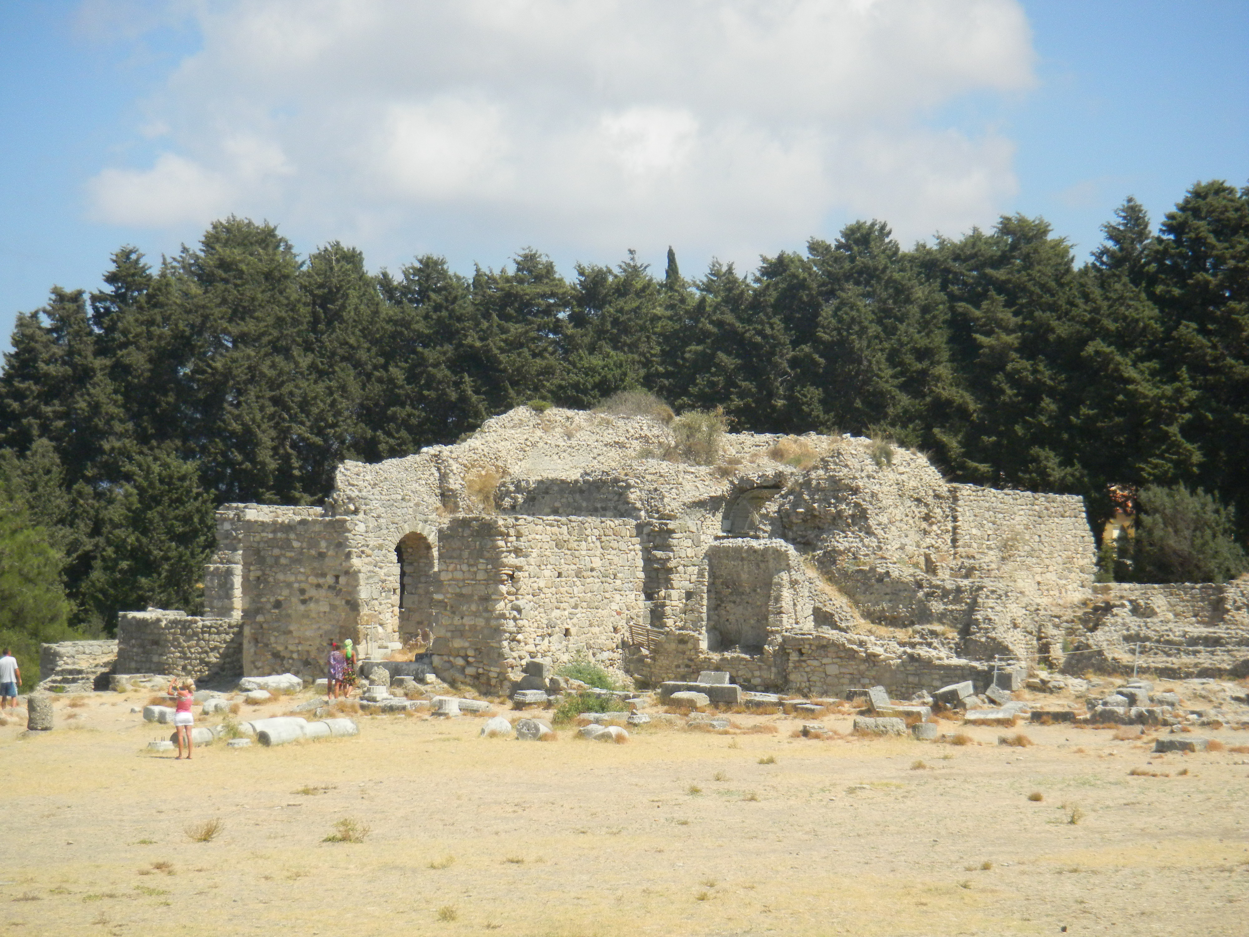 The Roman Baths (Thermae) at the eastern end of the first terrace at the Asklepion on the Greek island of Kos.